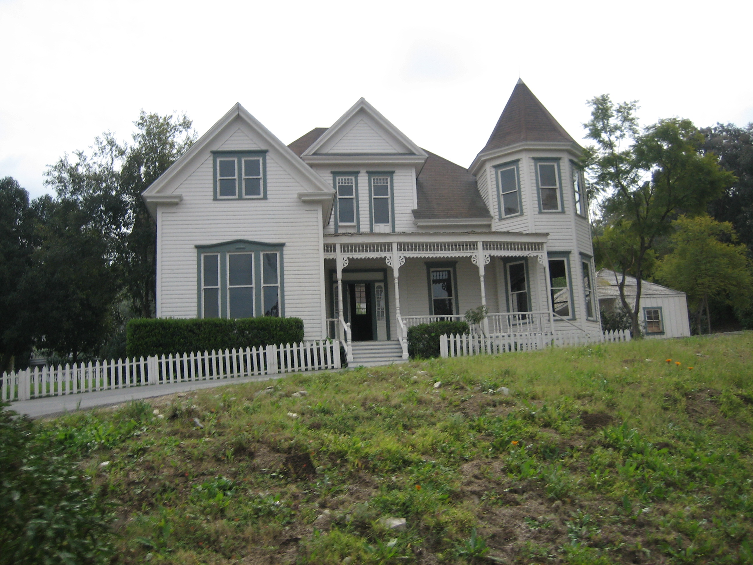 Chicken Ranch at the top of Wysteria Lane. (This is not Colonial Mansion)